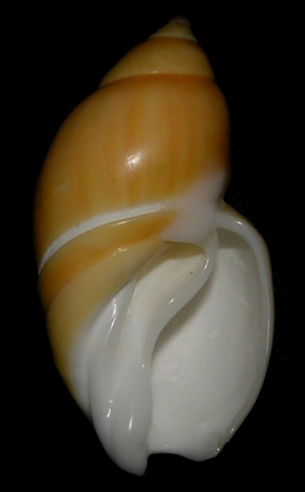 Photograph of the seashell Eburna lienardii (Bernardi, 1859)[1] (underside view) / Origin of image: Own collection. Icapuí, Ceará, Brazil.